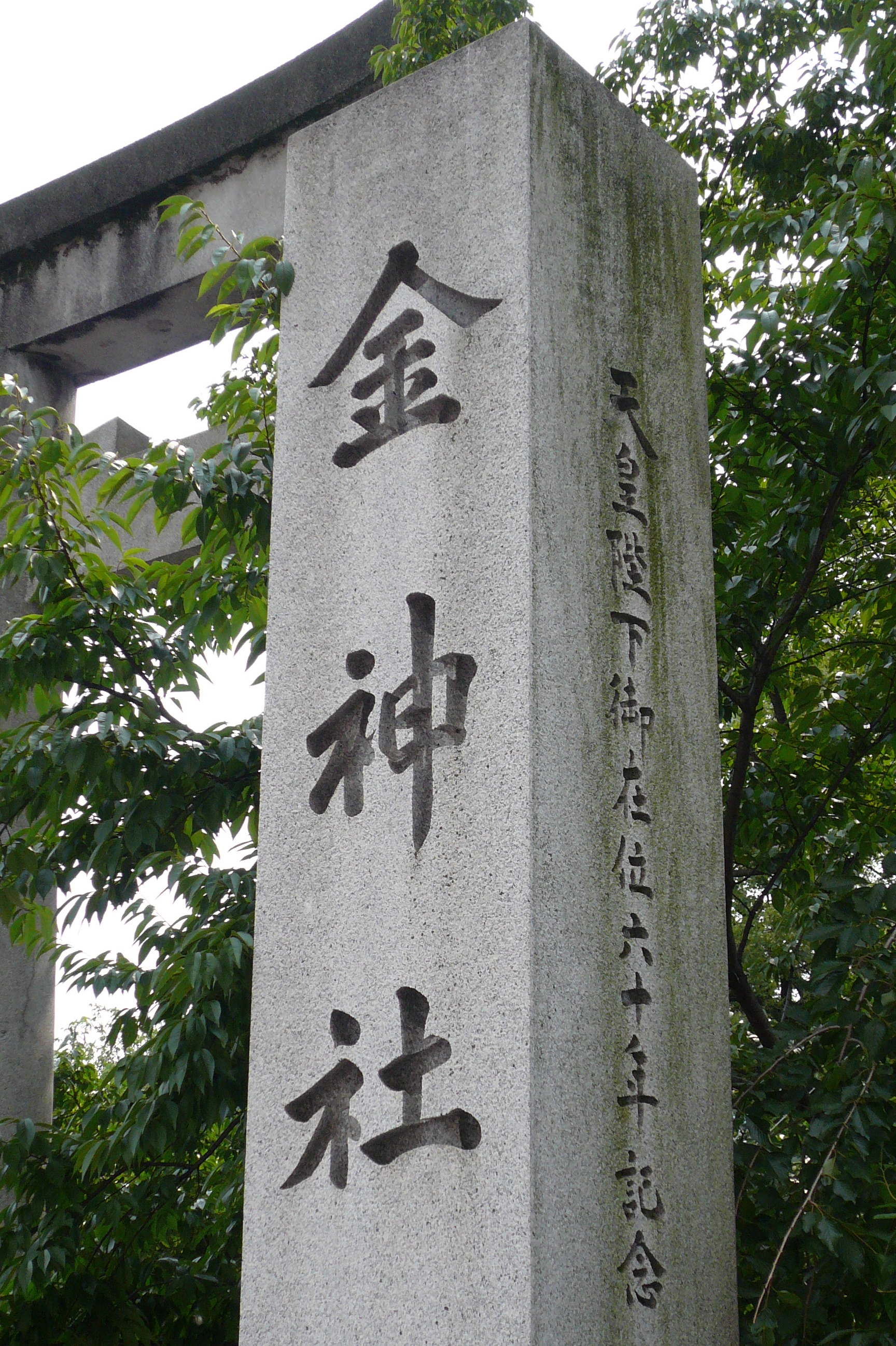 I took this picture of the stone sign outside of Kogane Shrine in July 2007.